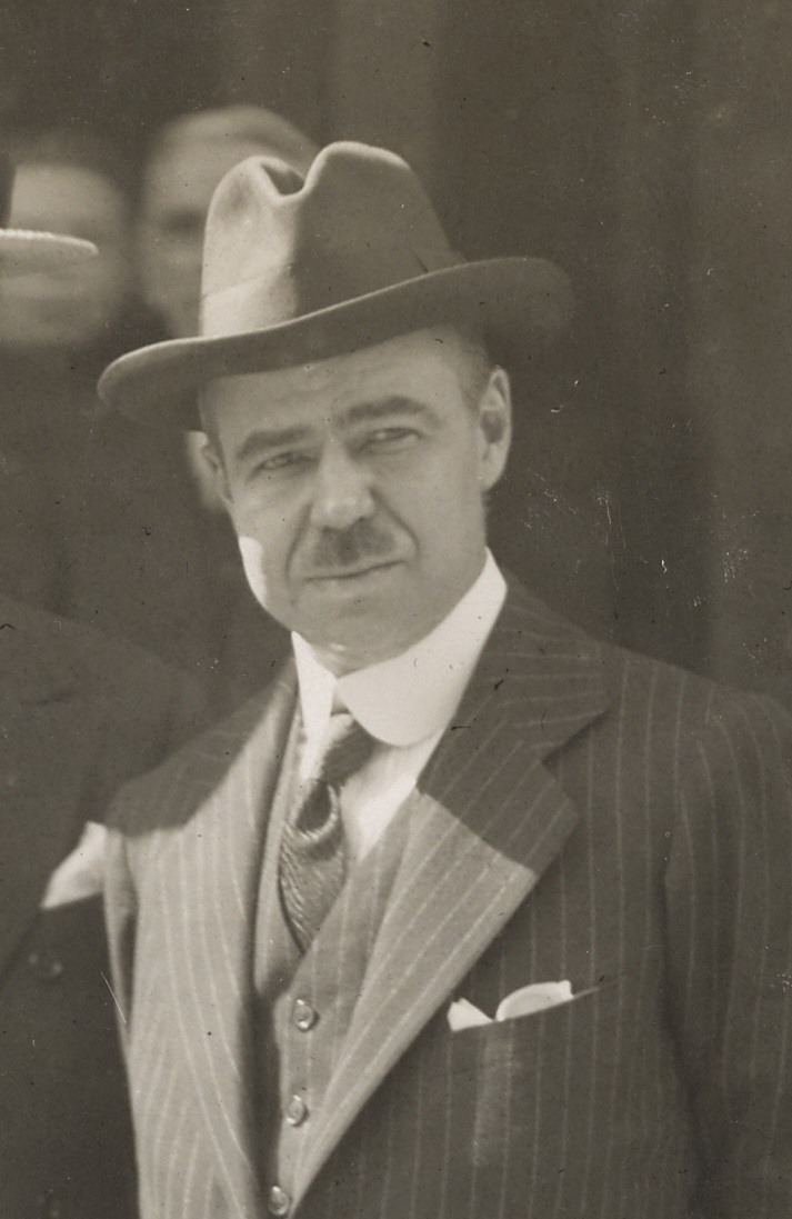 American Food Administrators at US Embassy. James F. Bell.